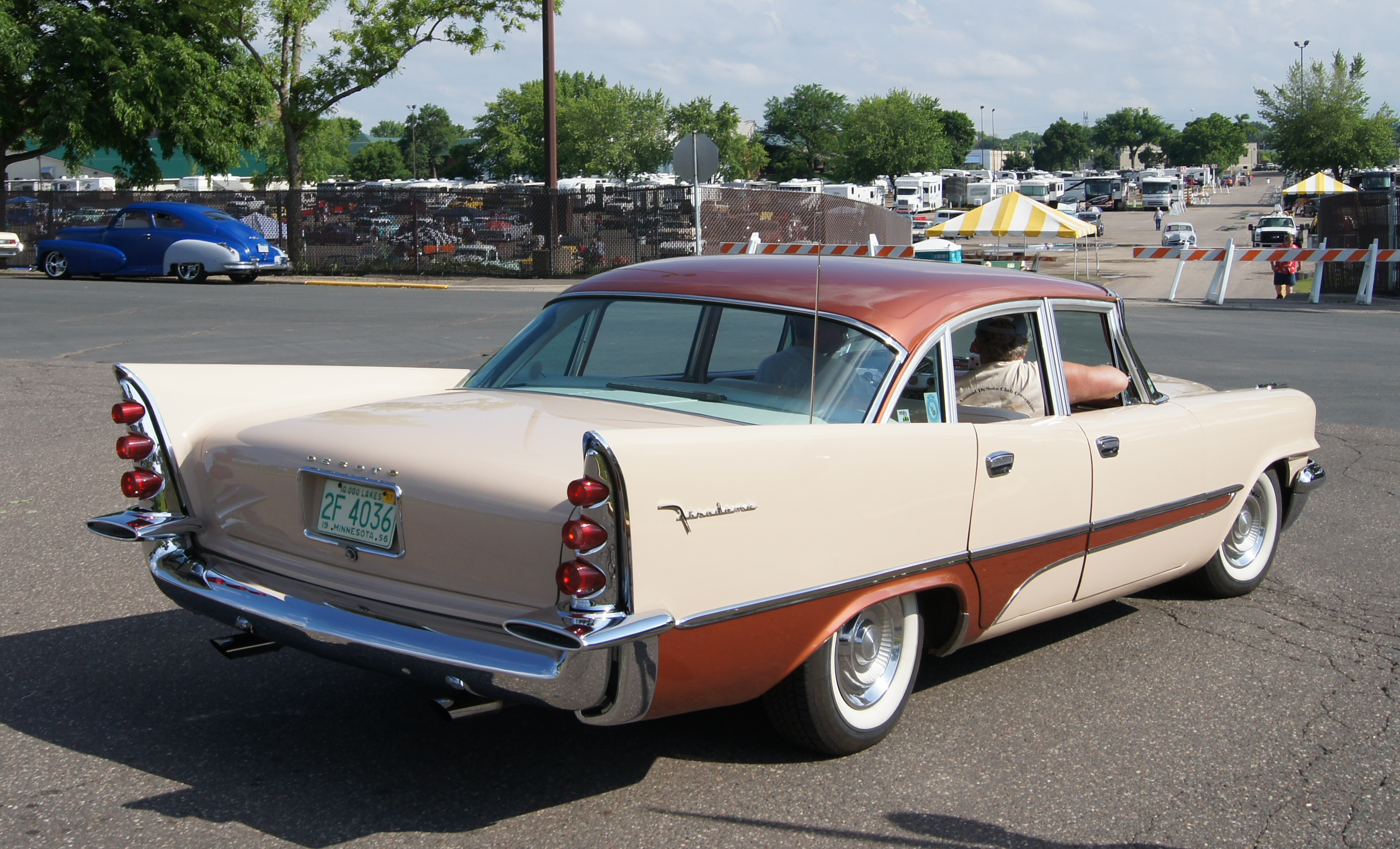 MSRA “BACK TO THE 50′s” 40th ANNIVERSARY June 21-23, 2013 State Fairgrounds St. Paul Minnesota More Car Pictures